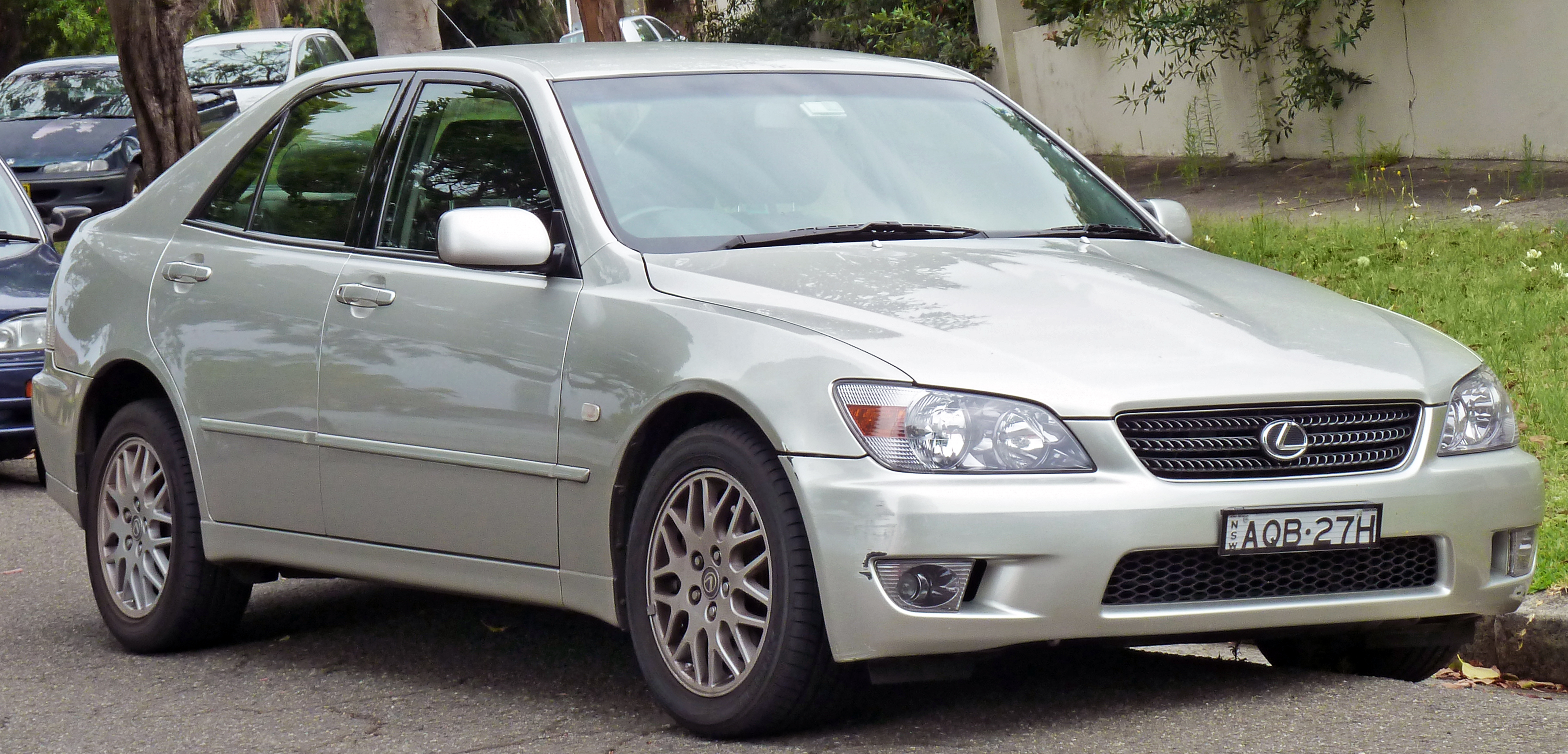 2003 Lexus IS 200 (GXE10R) sedan. Photographed in Bellevue Hill, New South Wales, Australia.